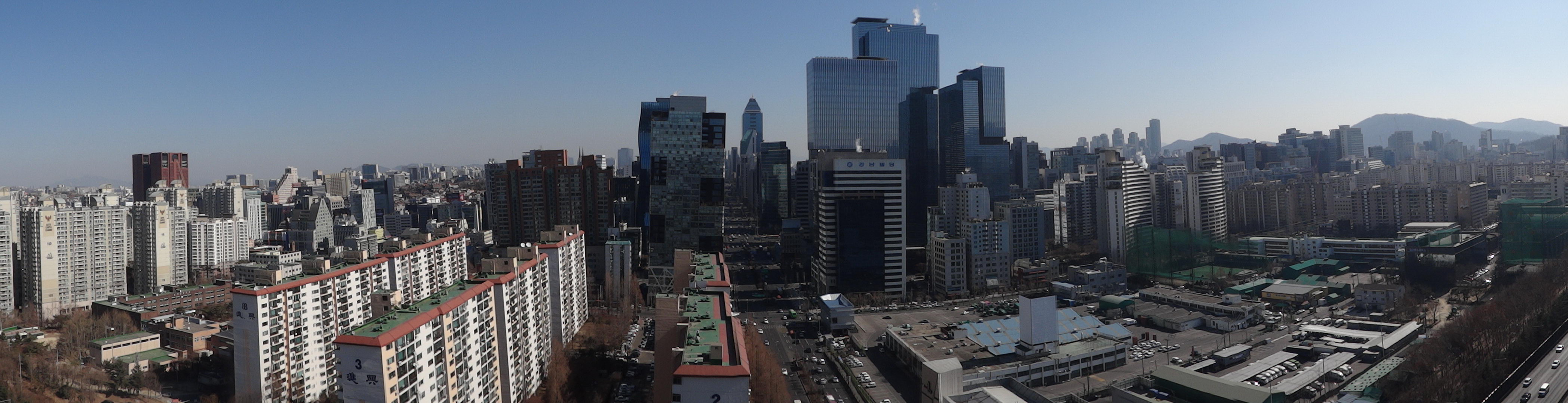 a panorama view from Teheranno in Seoul, South Korea